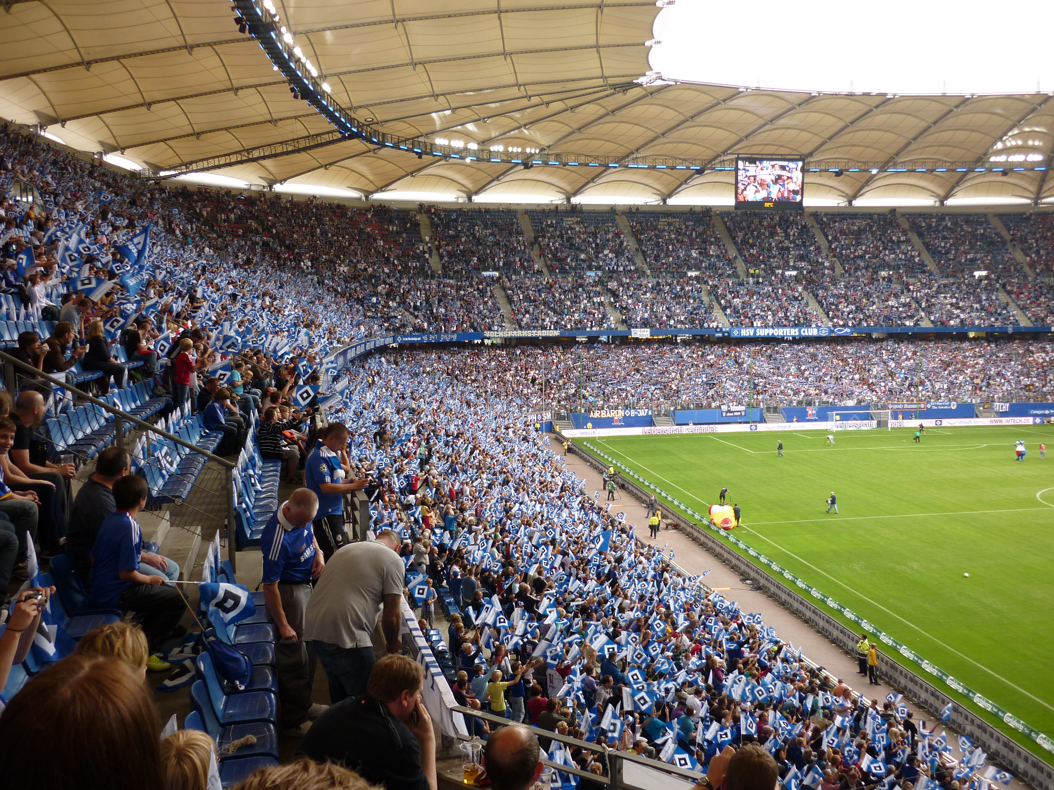 Imtech Arena east stand during the opening match of the 2010/11 season against Chelsea FC as seen from the visitors stand